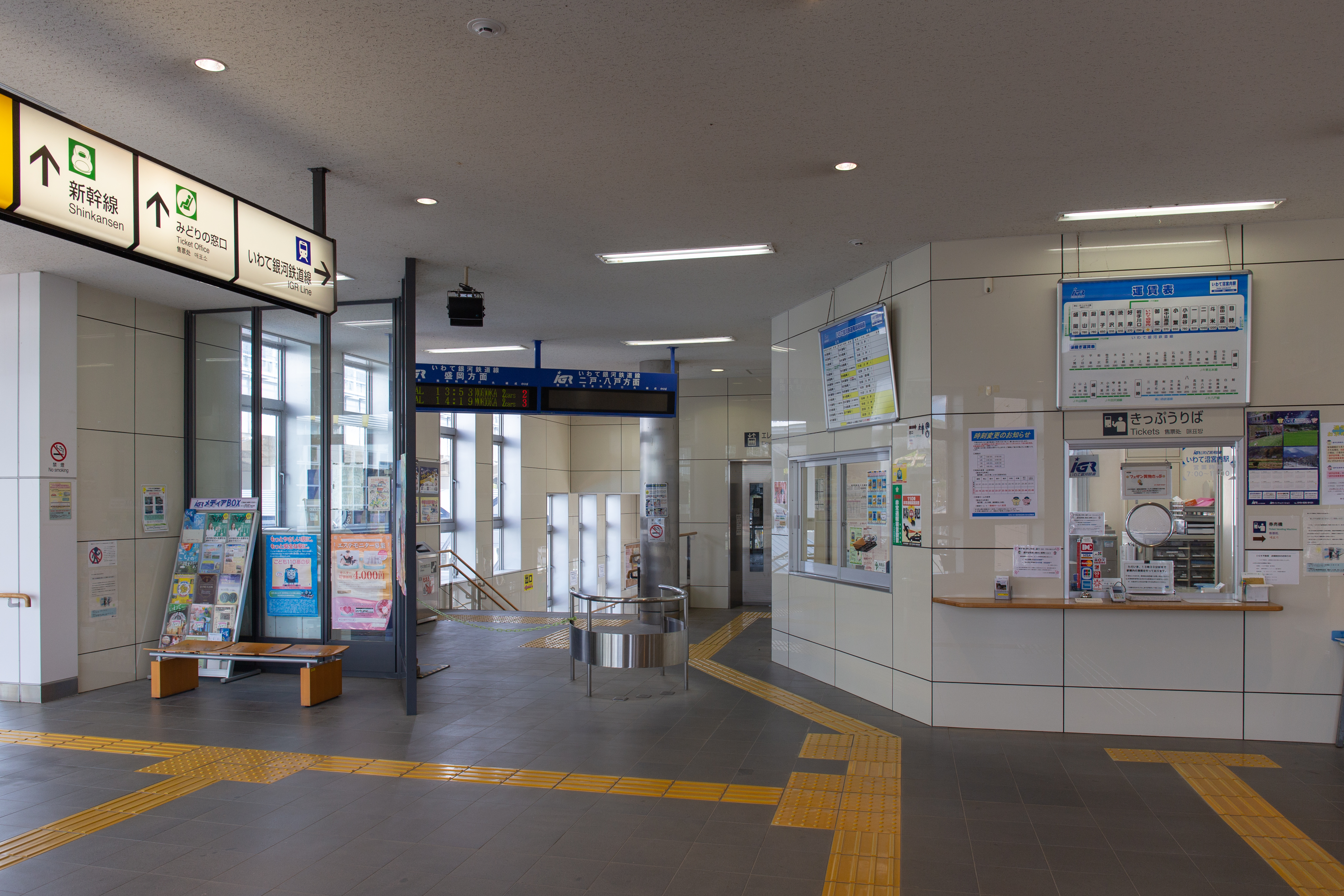 Ticket gate at the IGR Iwate Galaxy Railway Iwate-Numakunai Station